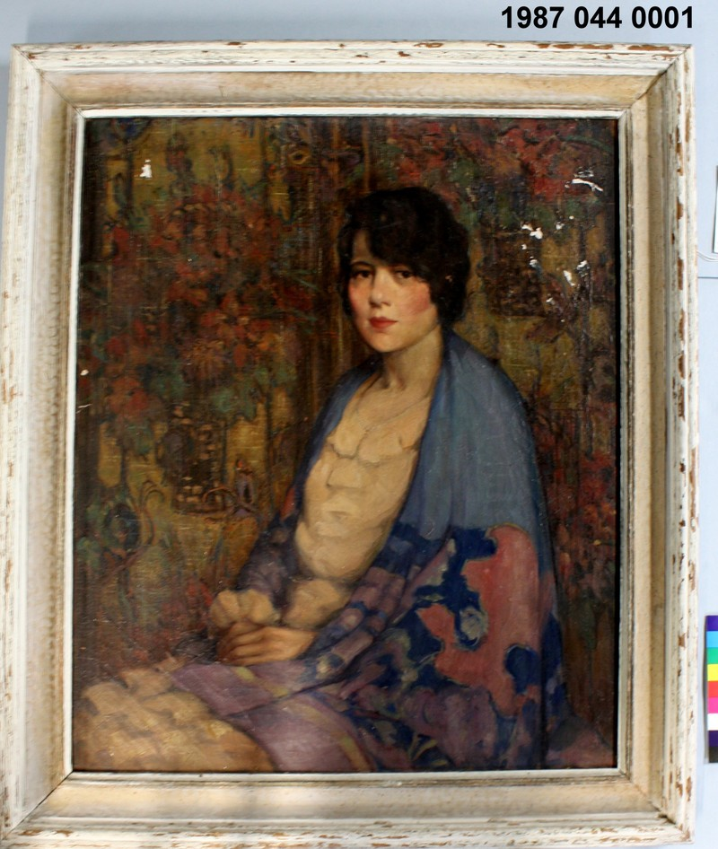 Oil on canvas of artist Aimee Schweig, by Warren Ludwig